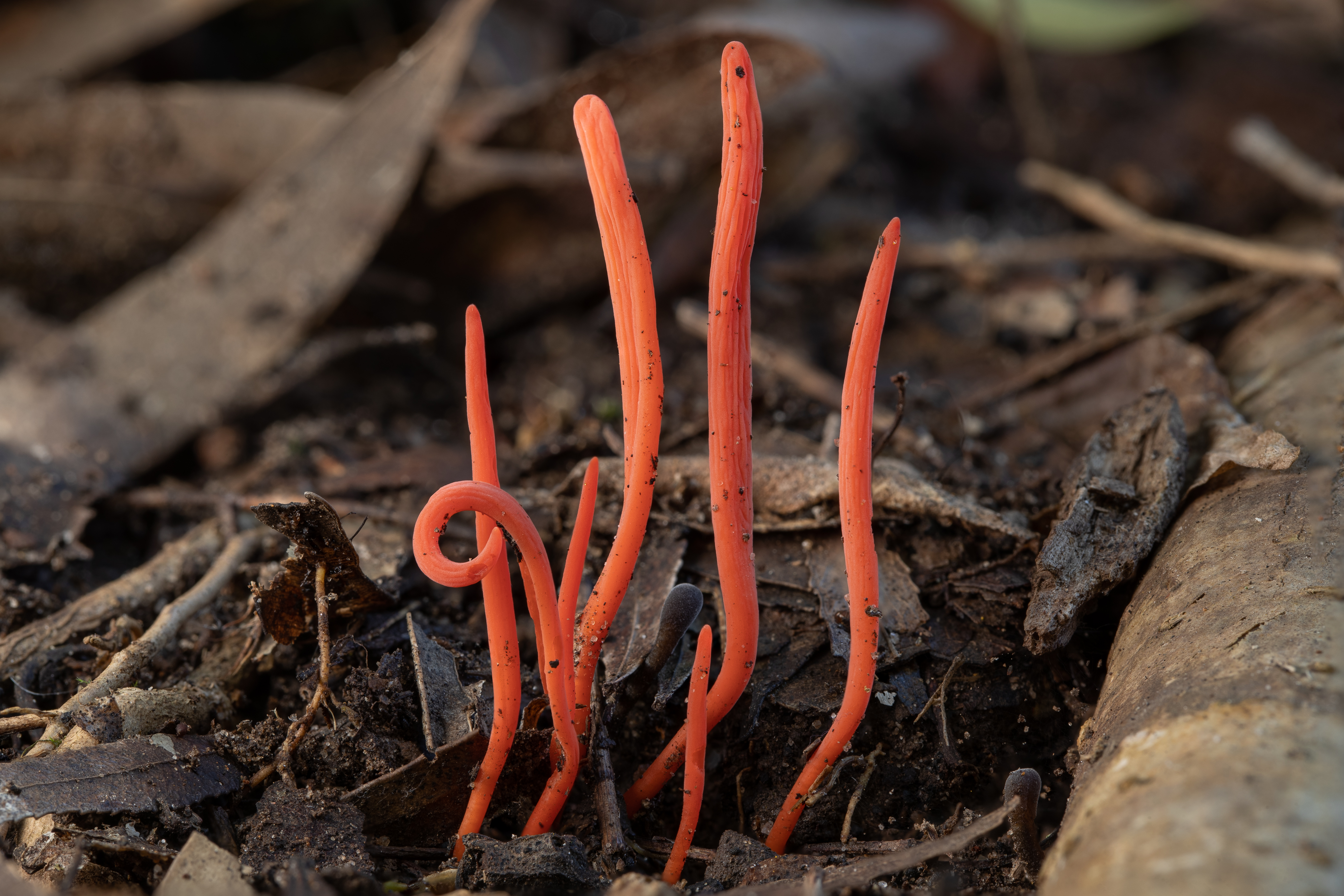 Clavulinopsis sulcata, Lane Cove River, Sydney, New South Wales, Australia.